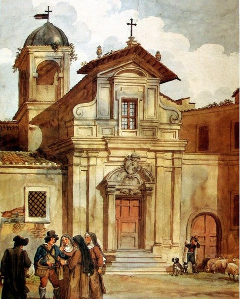 Painting of the church of San Caio in Rome by Ahcille Pinelli in the early 1800s.